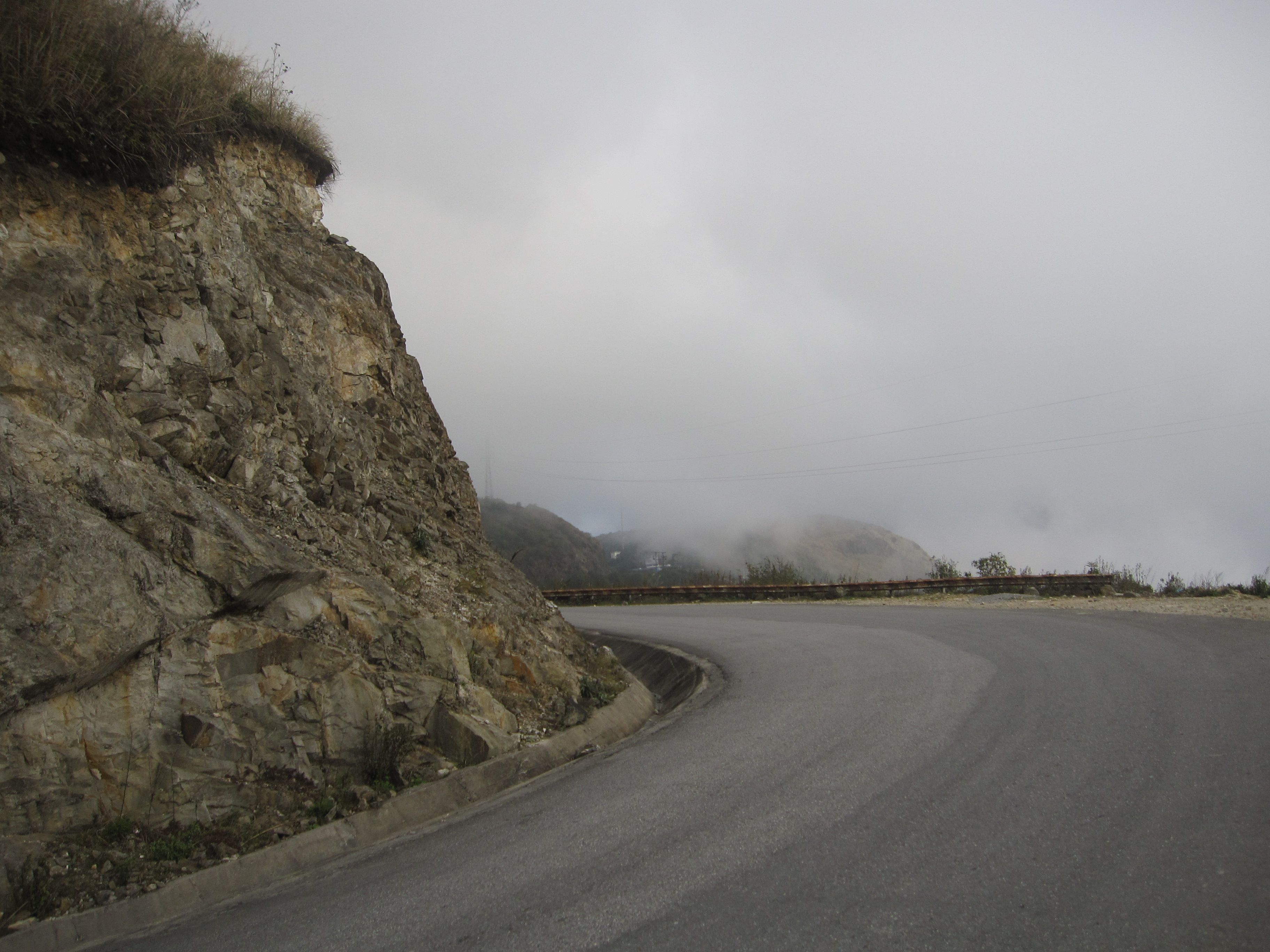 O Quy Ho Pass